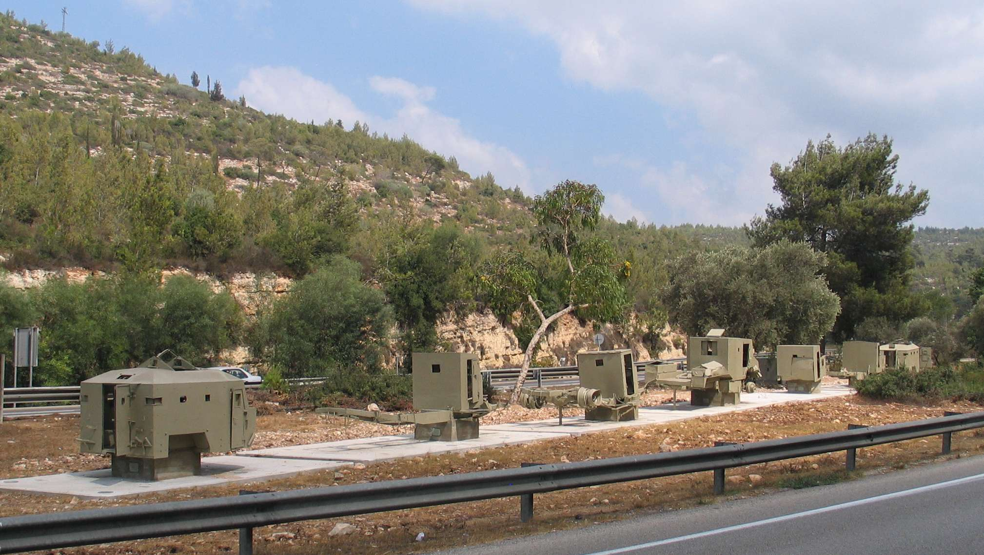 Remains of armoured vehicles at Shaar ha-Gai, Israel.